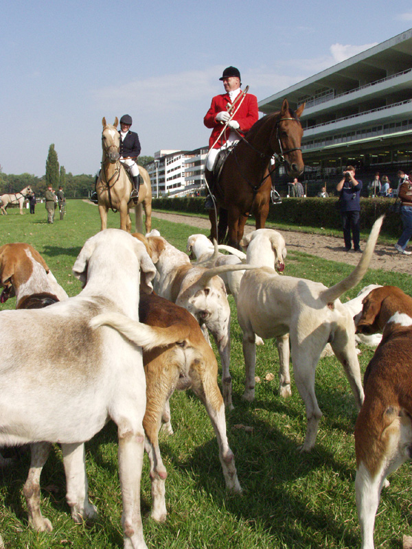 Hunting by horse, exhibit Pardubice, Czechia